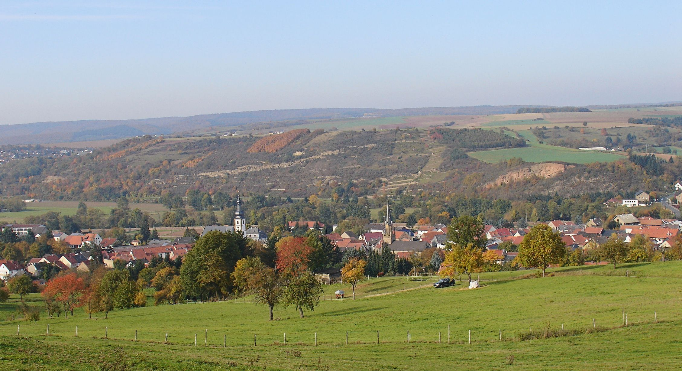 Germany/Rhineland-Palatinate/Staudernheim - Picture July 2006 from Neuberg northbound - Staudernheim and the "Soonwald"-Forest